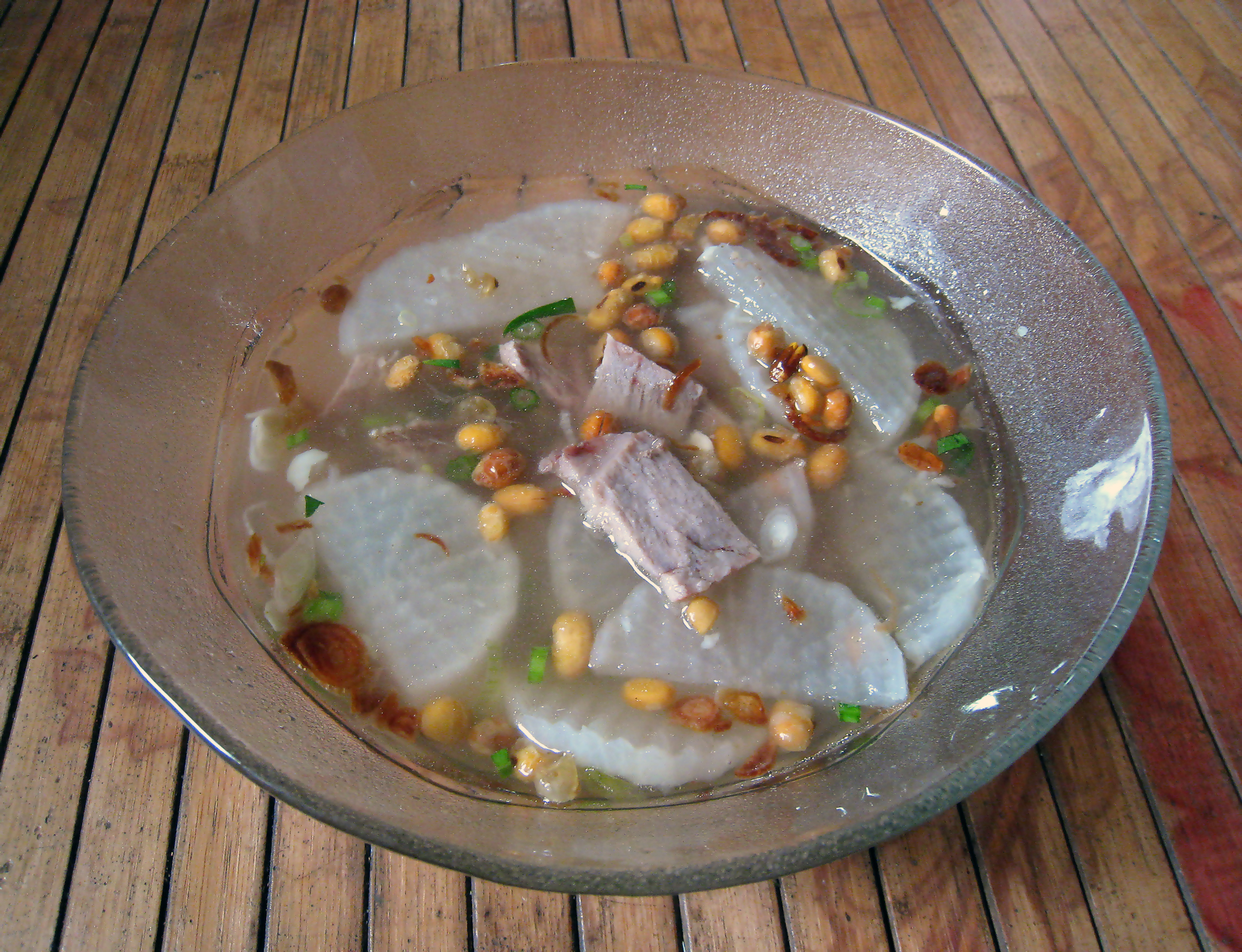 Soto Bandung, a type of soto from Bandung city, West Java, Indonesia. It consist of clear beef broth soup with beef slices, daikon, and fried soy beans.